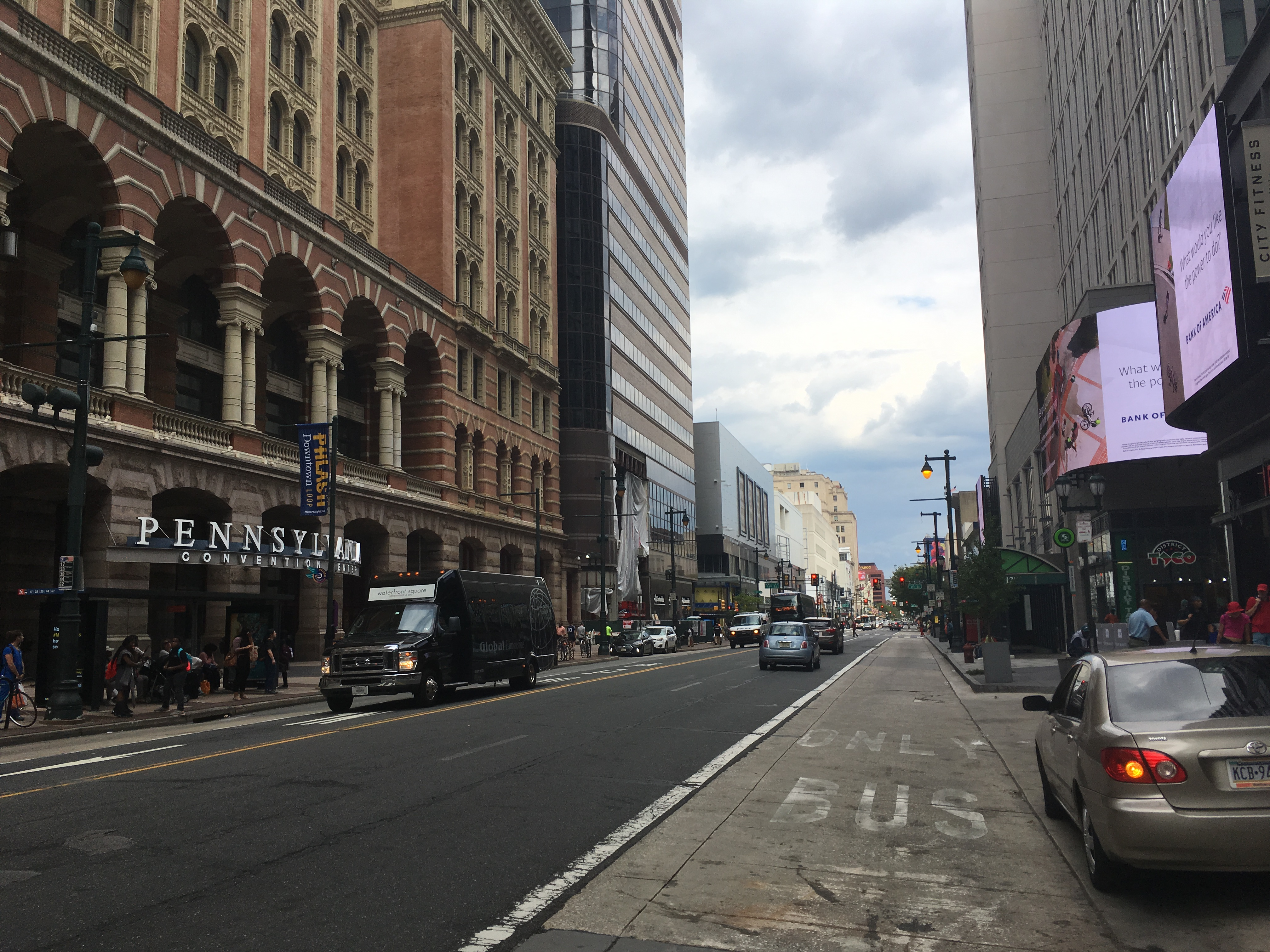 Eastbound Market Street past the intersection with 12th Street in Philadelphia, Pennsylvania